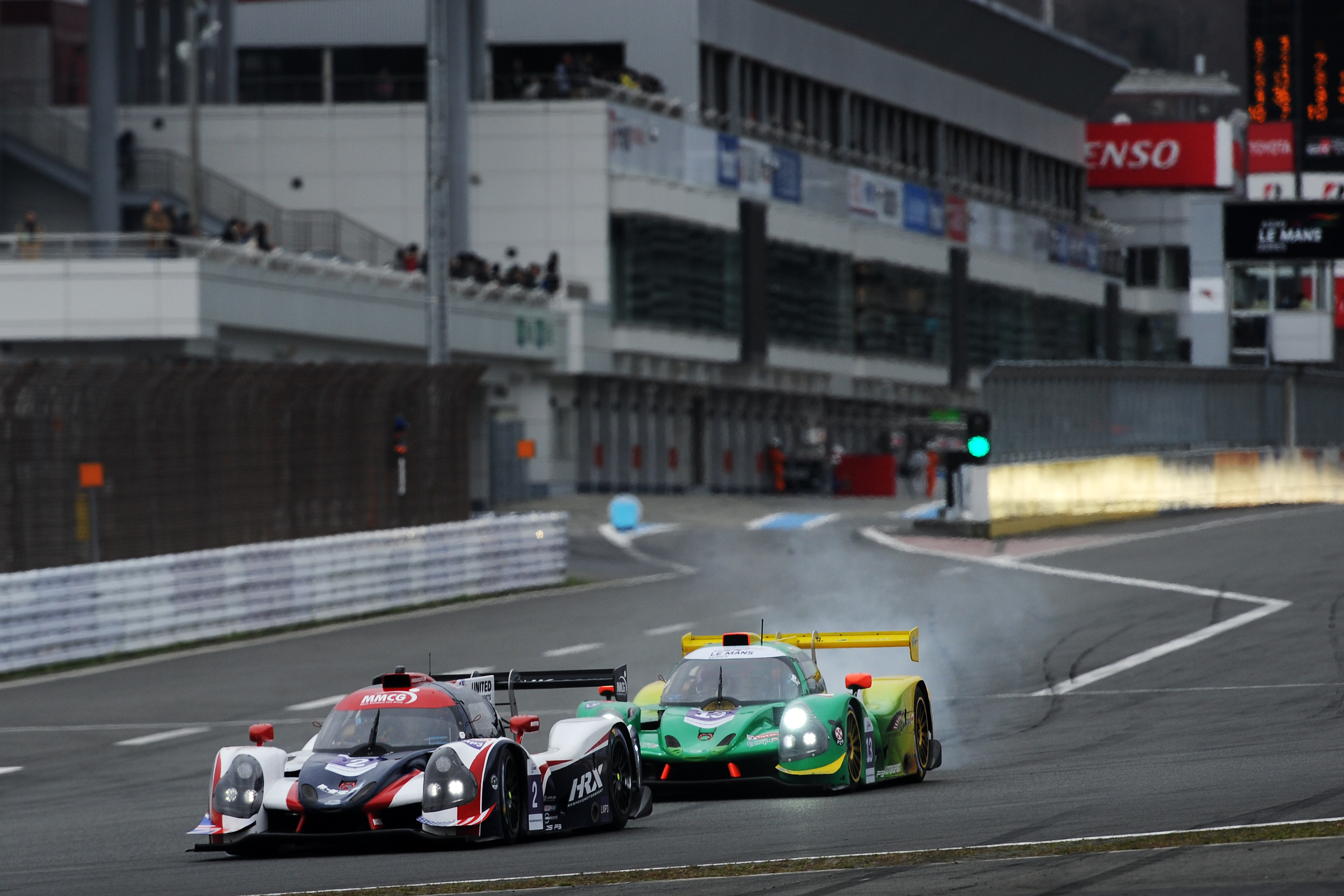 The Ligier JS P2 n°2 of United Autosports overtaking the Ligier JS P2 n°13 of Inter Europol Competition